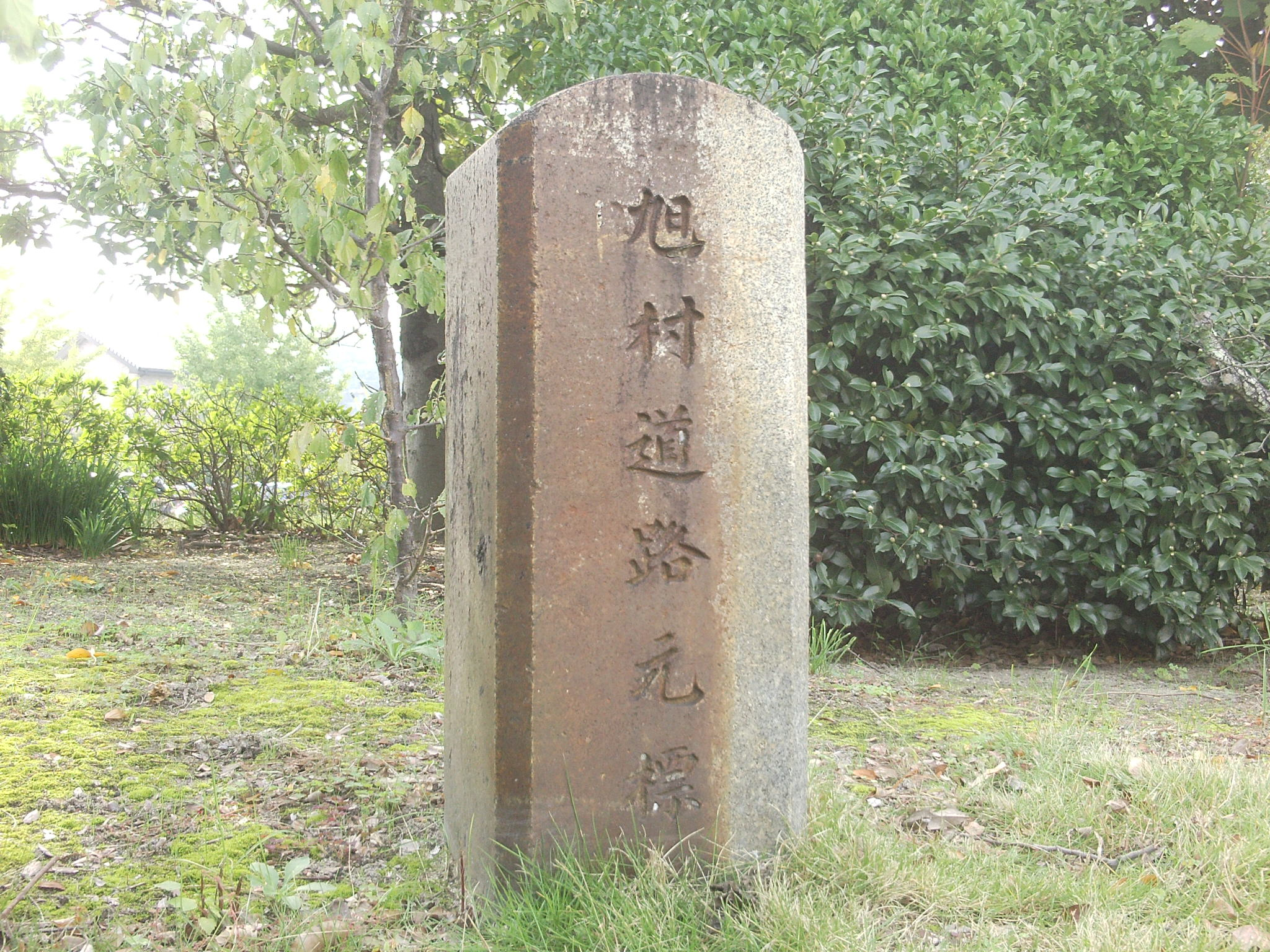 Kilometre zero of Asahi village. (Asahi village, Chita-gun, Aichi.)